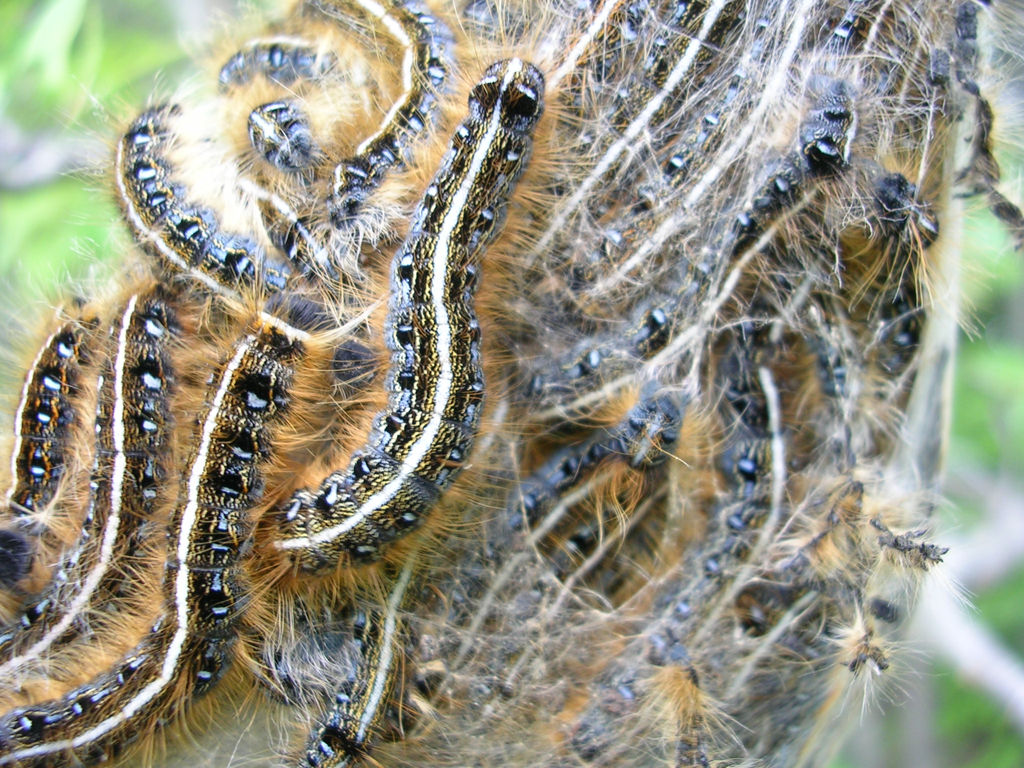 Picture of an Eastern Tent Caterpillar tent taken up close, showing how densely packed these caterpillars can sometimes be.